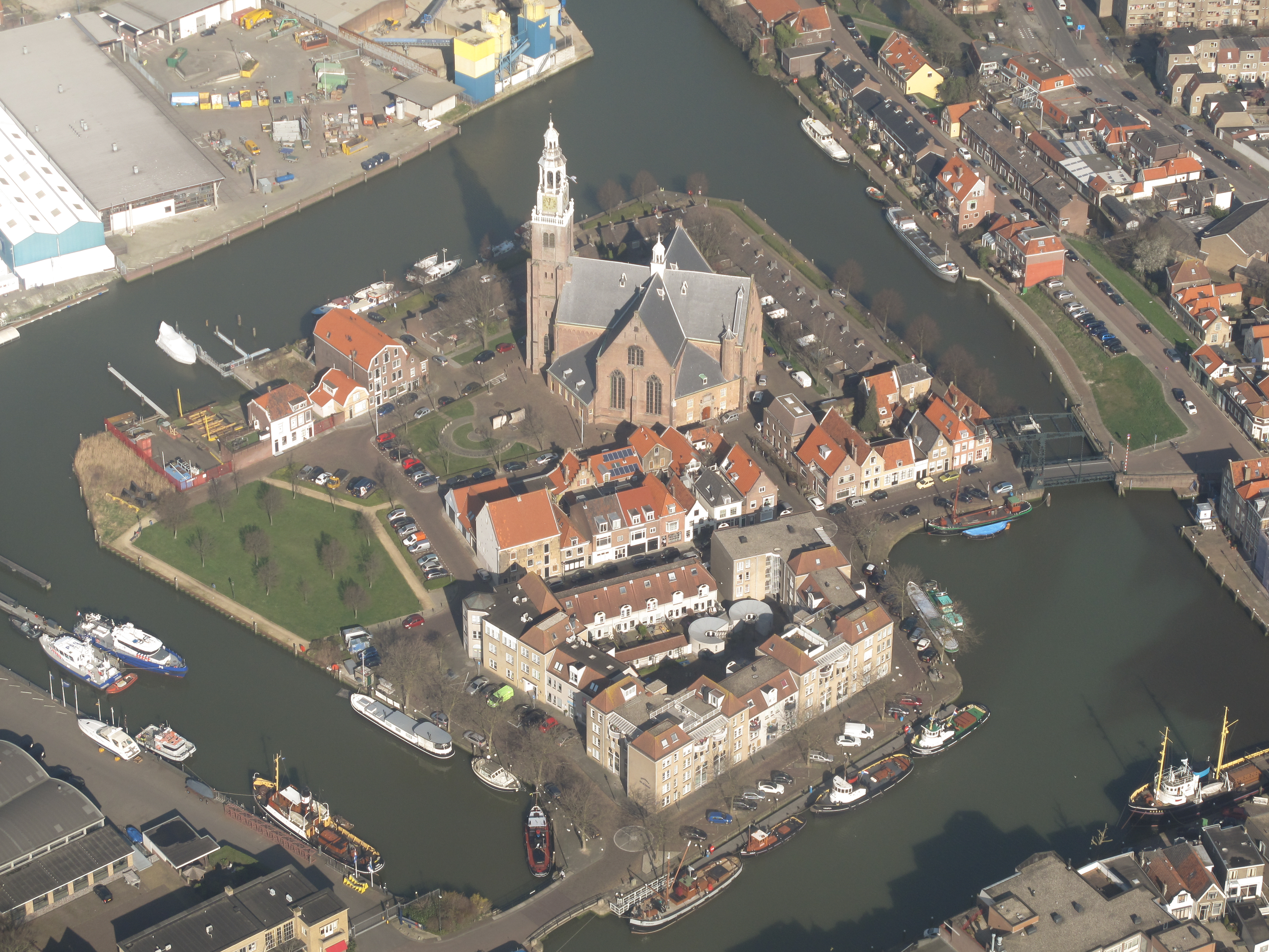 Maassluis, Kerkeiland from air with church (de Groote Kerk)